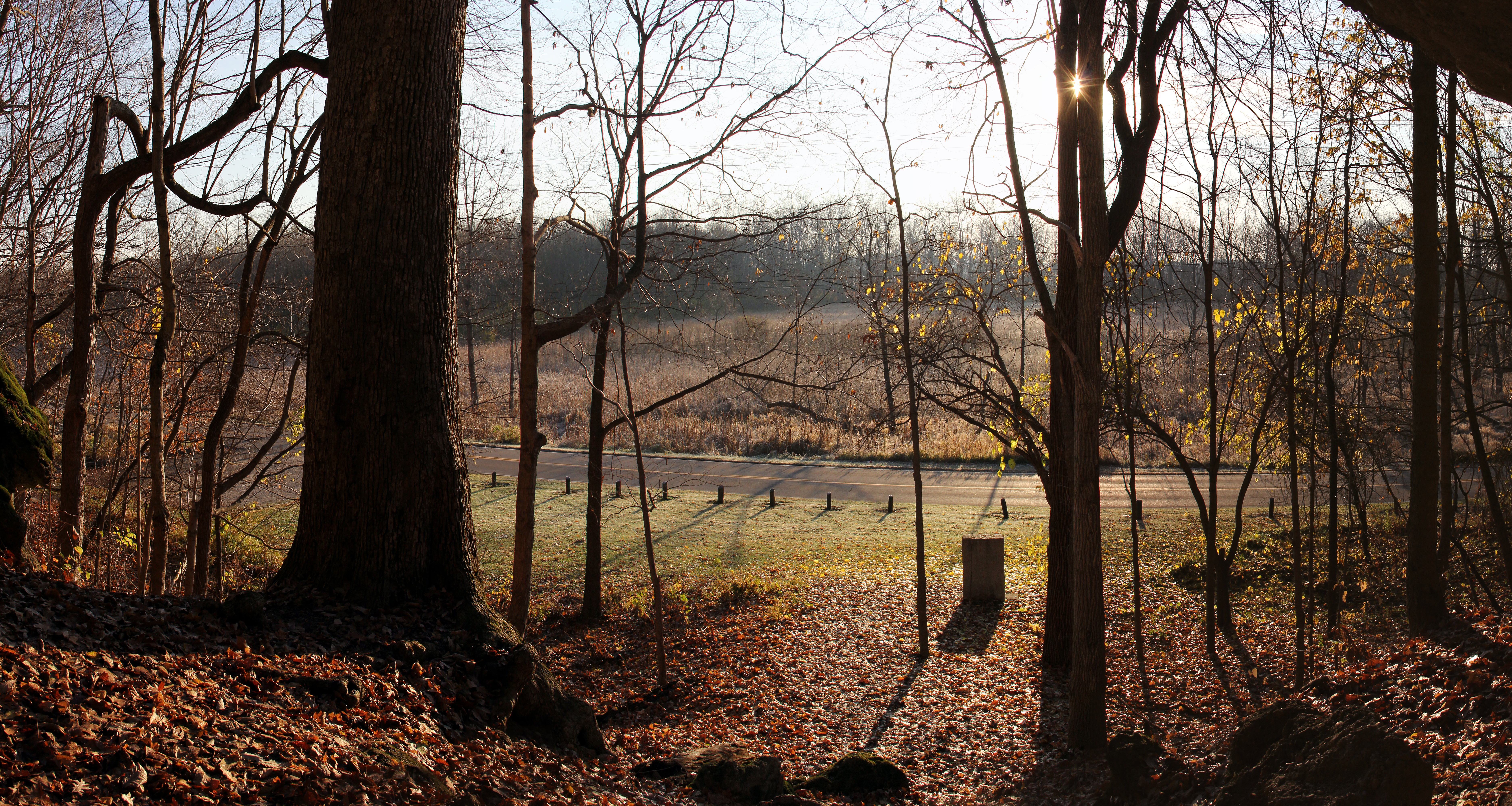 The view from Prophet's Rock, a stone outcropping in rural Tippecanoe County, Indiana near Battle Ground. The Shawnee leader Tenskwatawa ("The Prophet"), brother of Tecumseh, sang from this site to encourage his fellow warriors during the fight against William Henry Harrison's soldiers at the Battle of Tippecanoe, November 7, 1811. Photo looks southeast across Prophet's Rock Road toward Burnett's Creek and the battlefield site beyond.